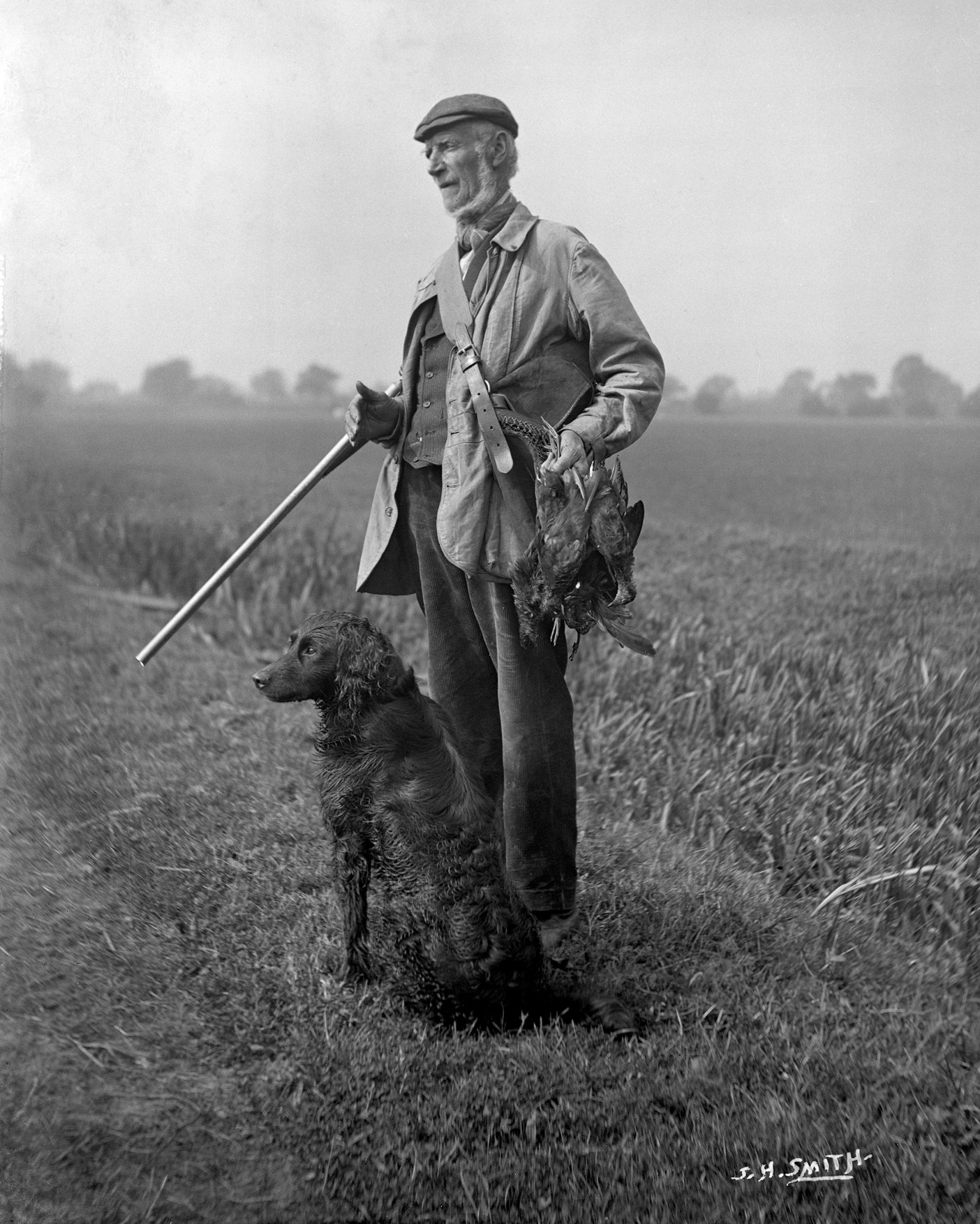 Slights with a gun over his right arm and dead fowl in his left hand.